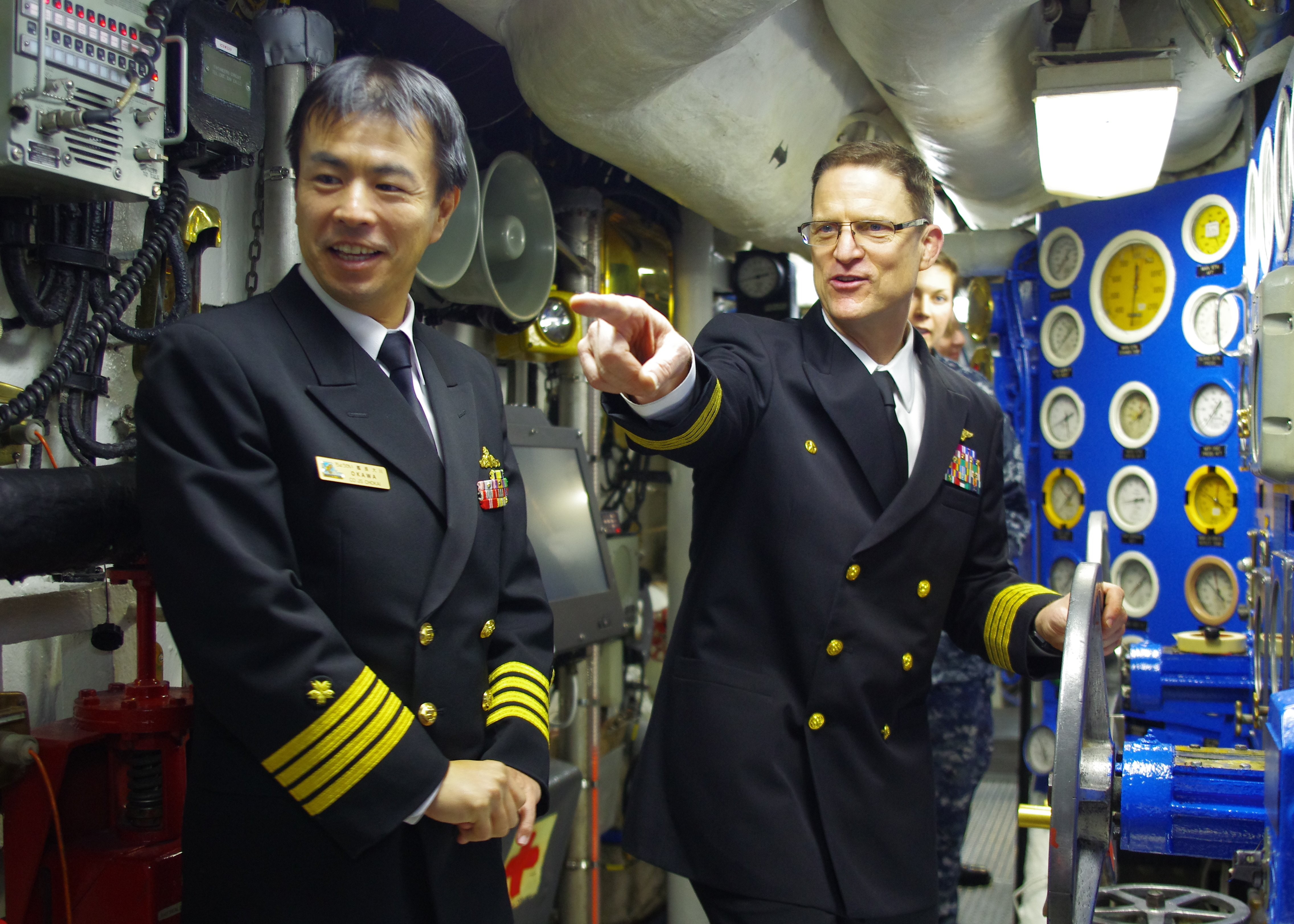 SASEBO, Japan (Dec. 22, 2011) Capt. Mike Wettlaufer, commanding officer of the amphibious transport dock ship USS Denver (LPD 9), gives Japan Maritime Self-Defense Force Rear Adm. Hideaki Yuasa and Capt. Tsutomu Okawa a tour of the ship's main machinery rooms. Denver is part of the Essex Amphibious Ready Group and is participating in Amphibious Landing Exercise (PHIBLEX) with the Armed Forces of the Philippines. (U.S. Navy photo by Mass Communication Specialist Seaman Paul Kelly/Released)